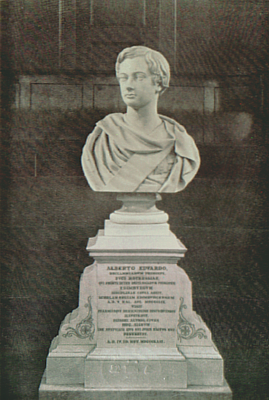 Vintage photograph of a bust of Edward VII of the United Kingdom as Prince of Wales, created in 1862 and displayed at the Royal High School to commemorate his tuition in Edinburgh in 1859.